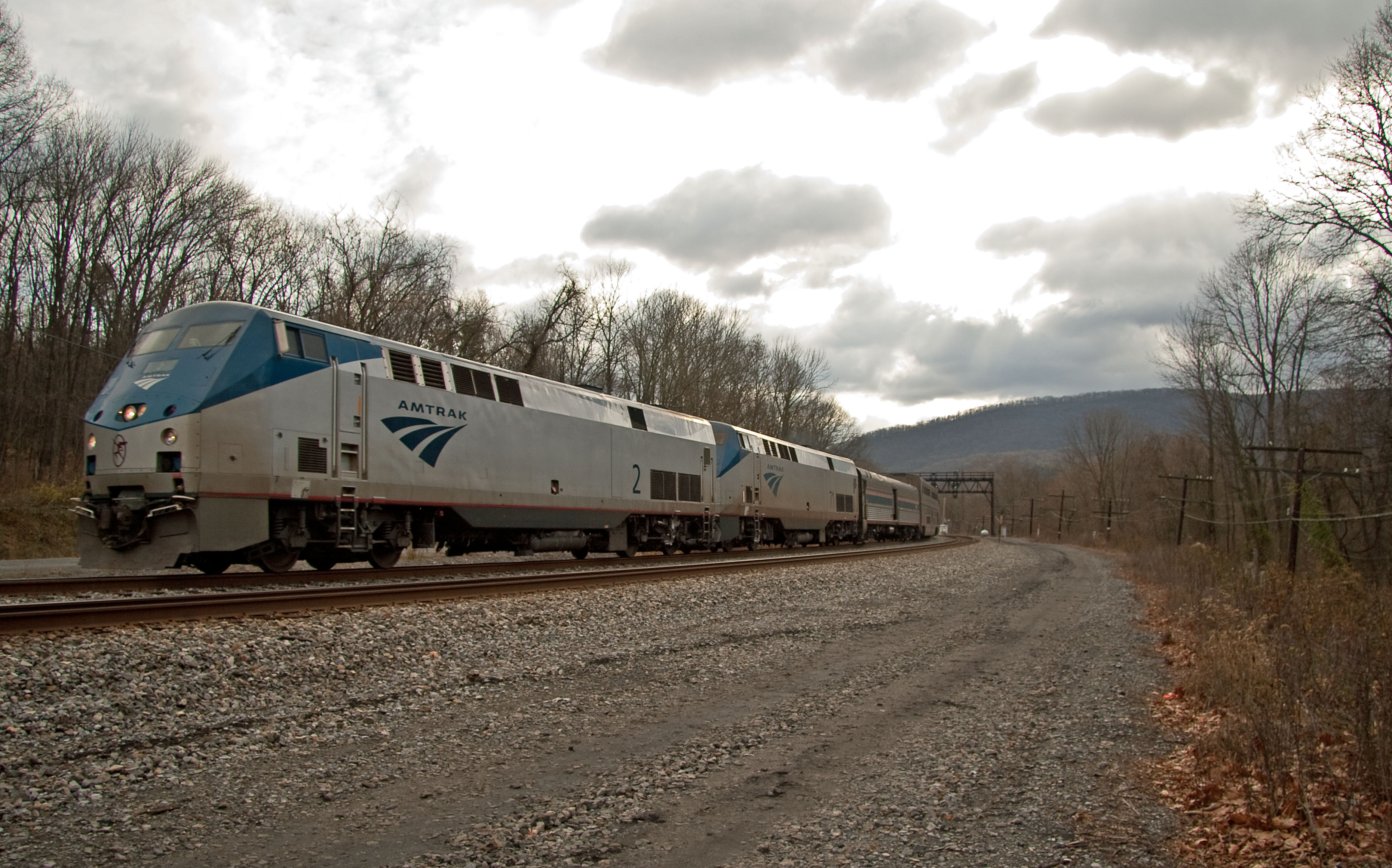 Amtrak #30 "The Capitol Limited" speeds through Orleans Cross Roads, WV on a Sunday morning.